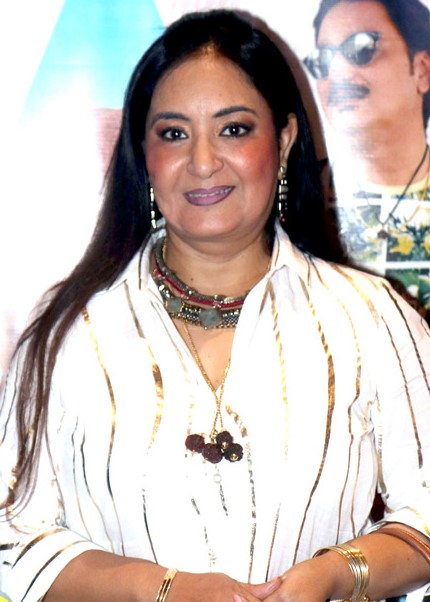 Jaspinder Narula graces the special screening of Mr. Kabaadi.